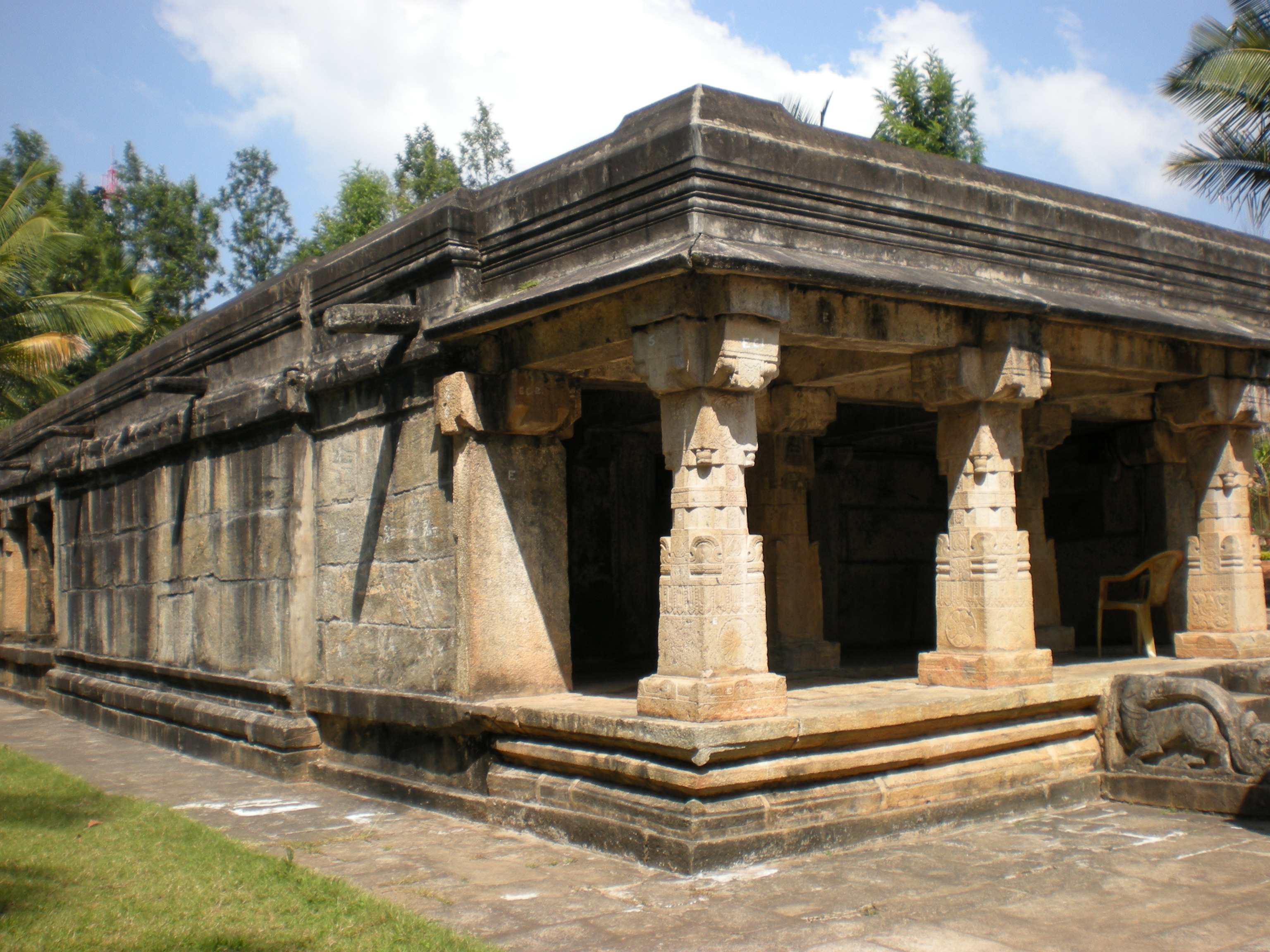 Sulthan bathery fort